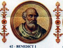 Pope Benedict I